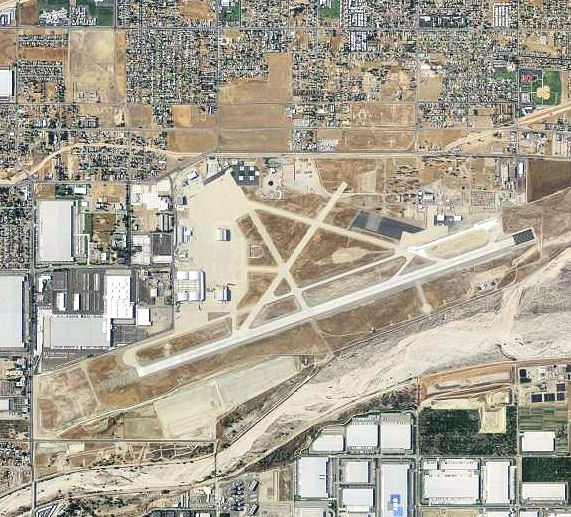 USGS digital orthophoto of Norton Air Force Base in California